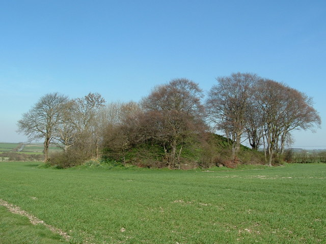 Willy Howe looking north, near to Wold Newton, East Riding of Yorkshire, England.Prehistoric Burial Mound